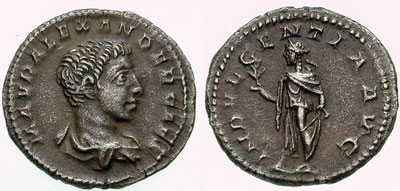 Alexander severus coin